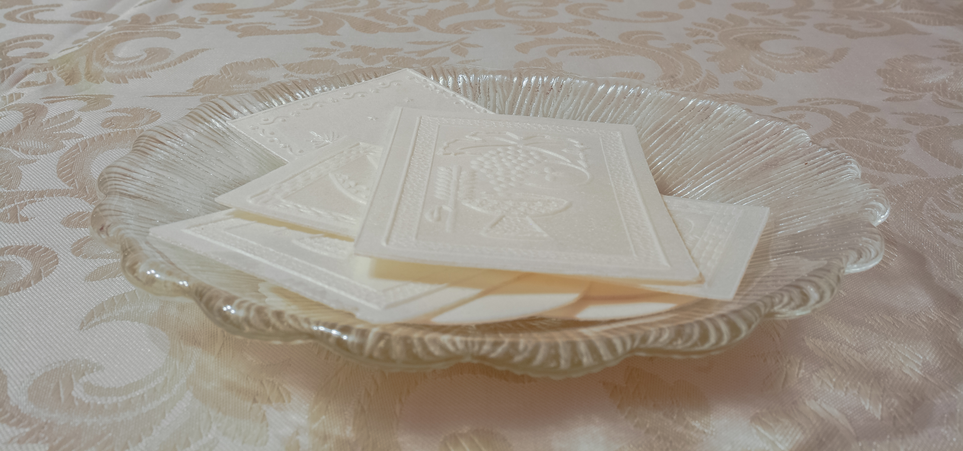 Opłatek or Christmas Wafer, Polish cuisine, Gniezno, Poland